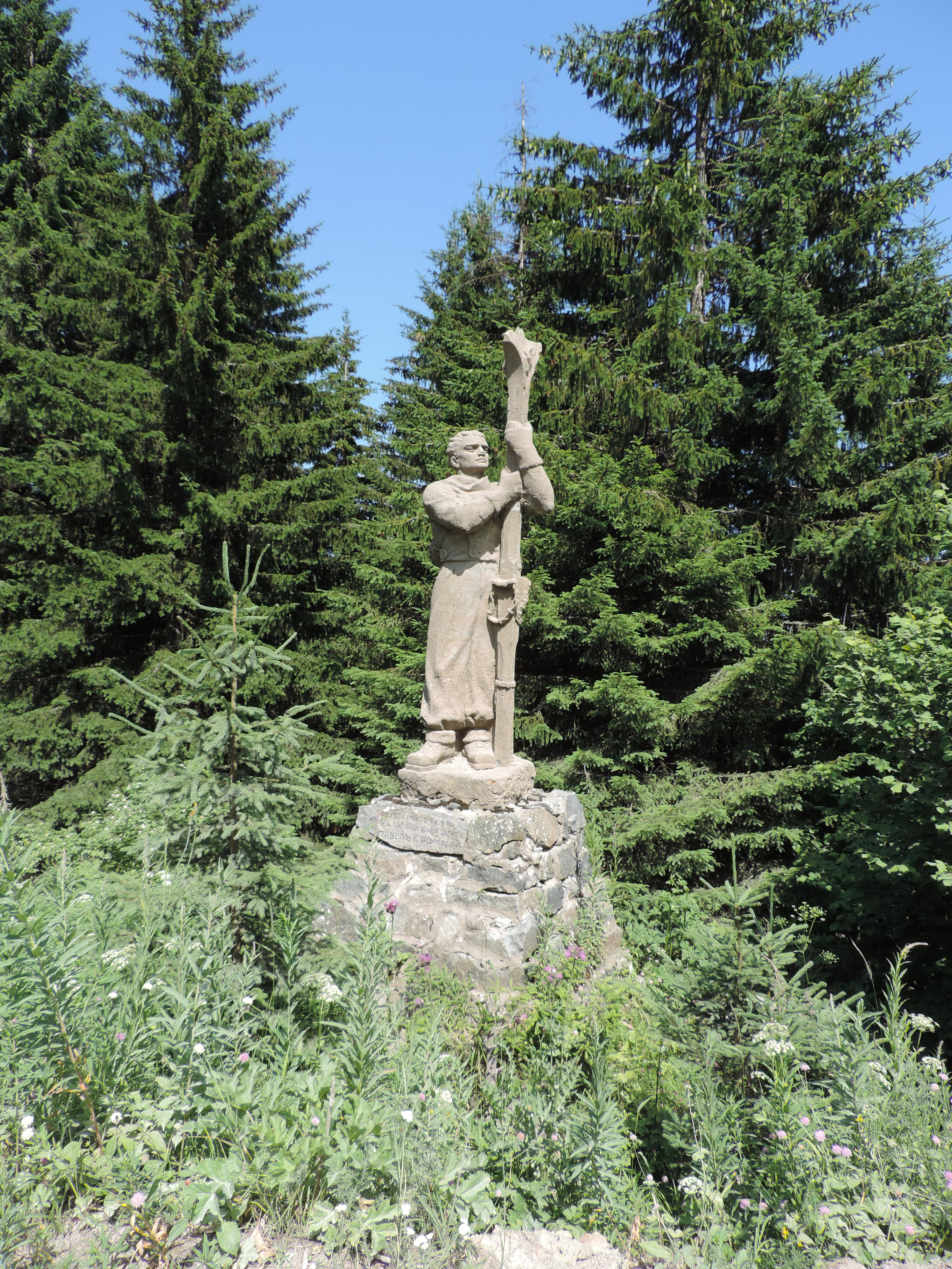 Pavel Romanski monument